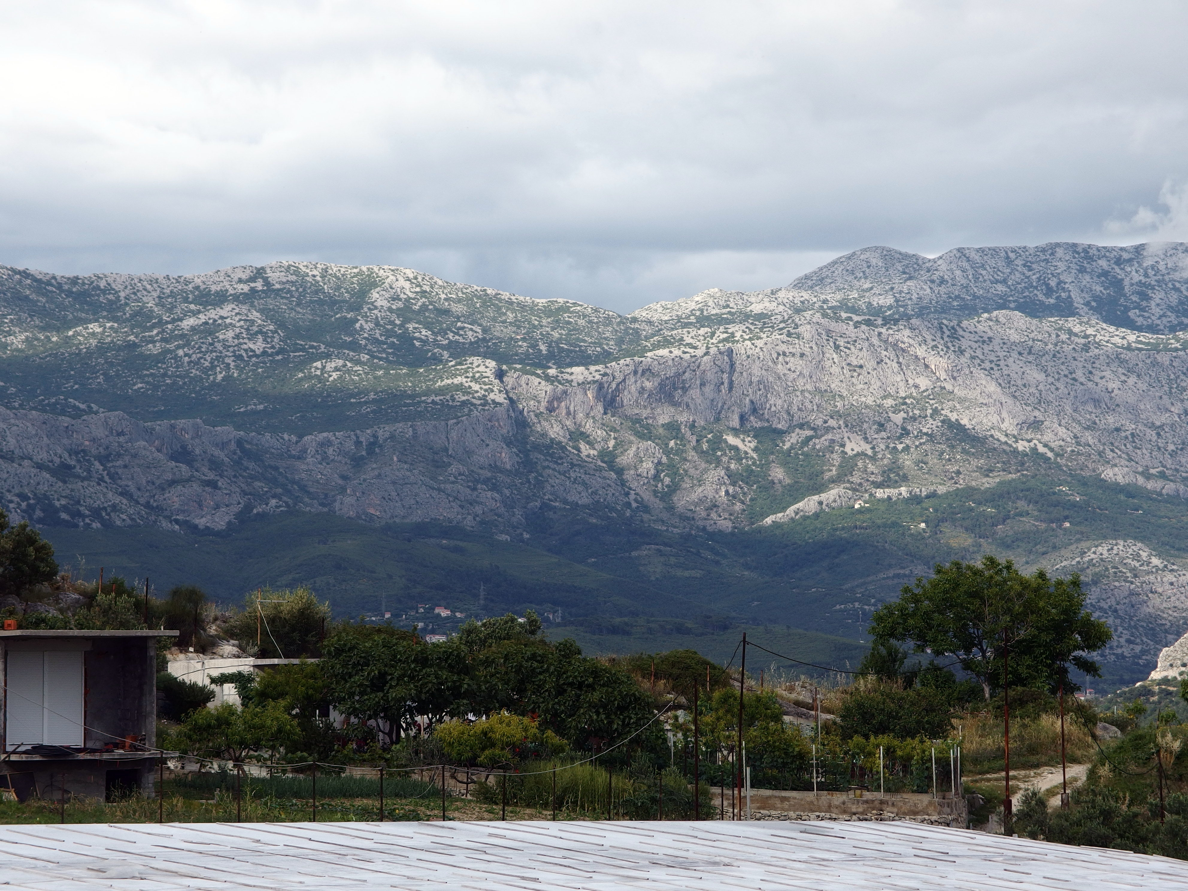 2013-06-02 in Split.